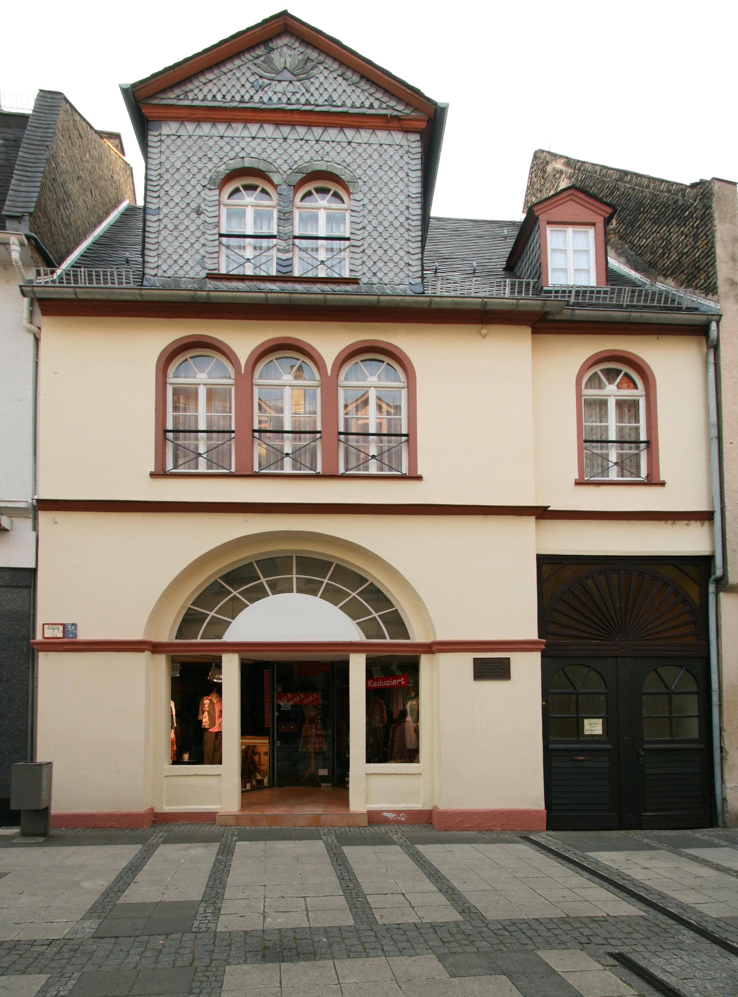 Former synagogue, Eltville am Rhein, Hesse, Germany